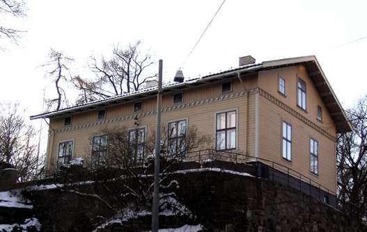 Grotten, Wergelandsveien 2, Oslo. Built for Henrik Wergeland 1841. Architect (possibly) Hans Linstow. Early Swiss style. Protected by law.